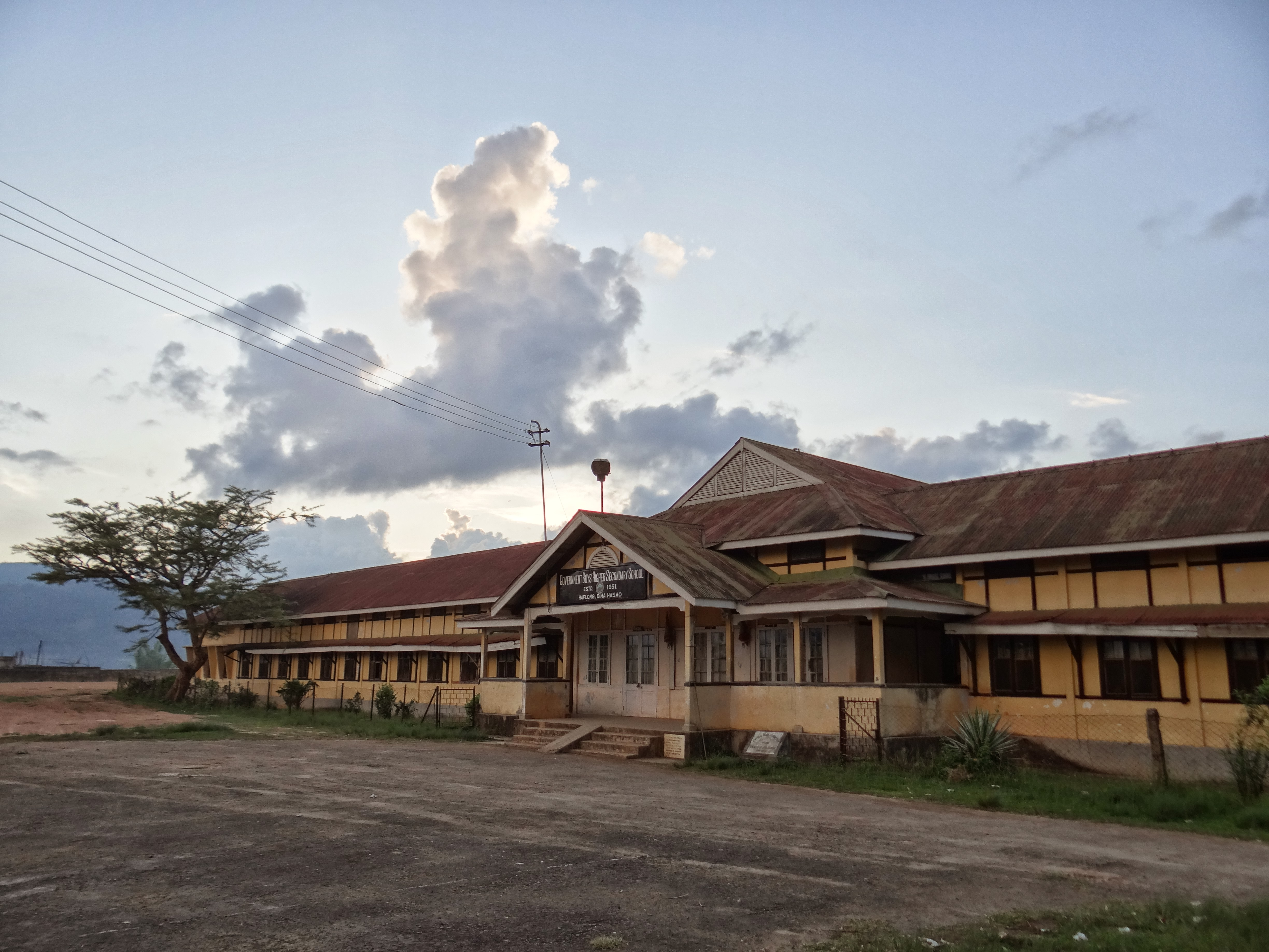 Haflong Government Boys Higher Secondary School